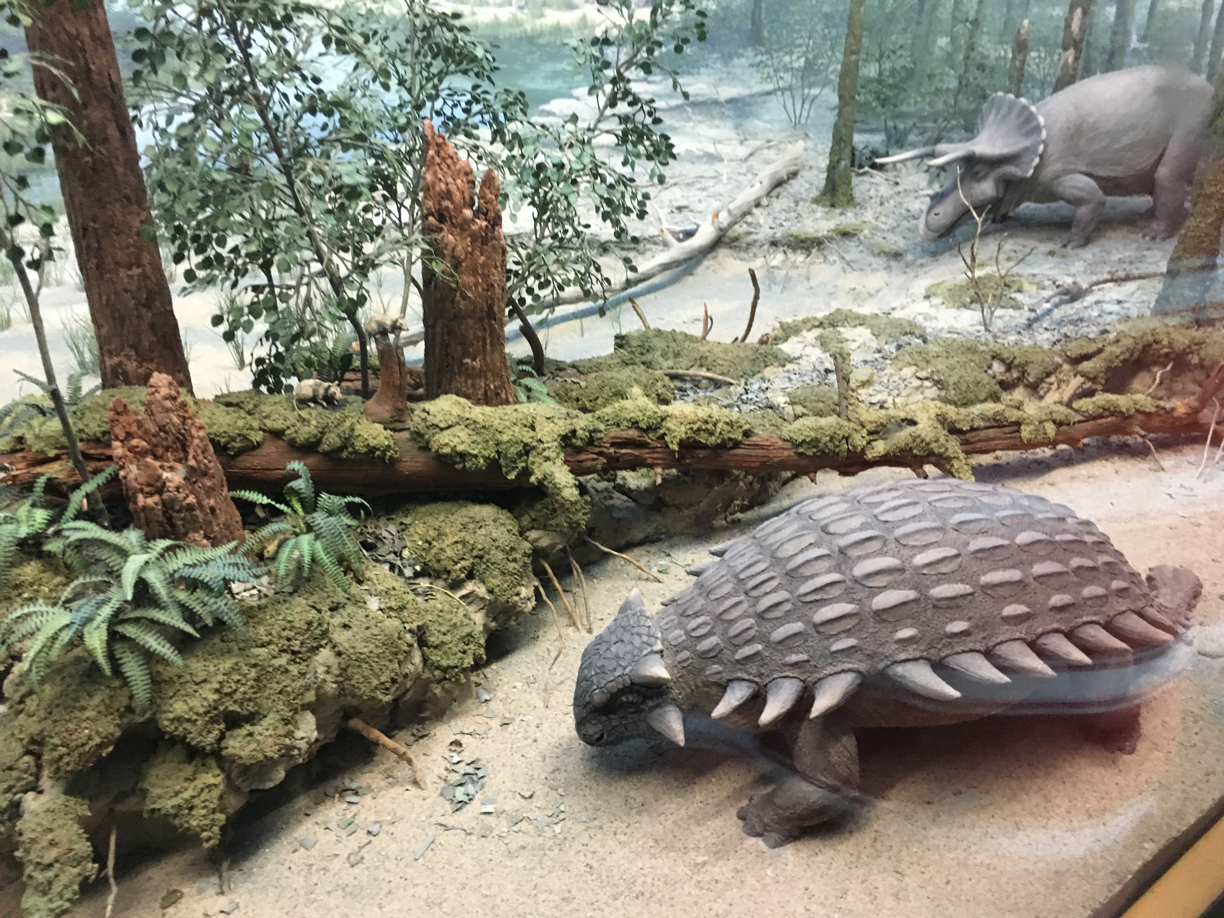 Dinosaur display